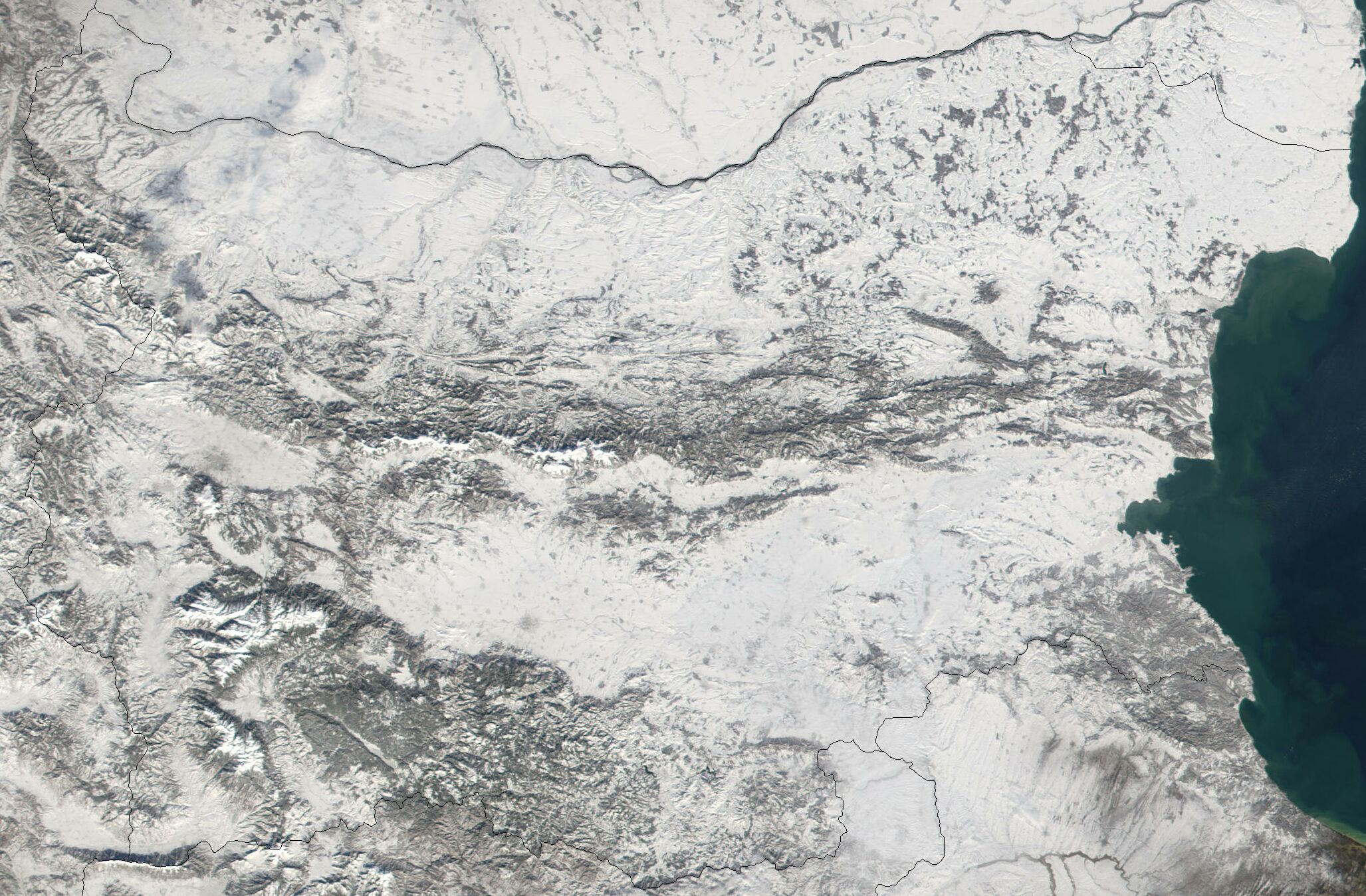 Satellite image of Bulgaria in December 2001.